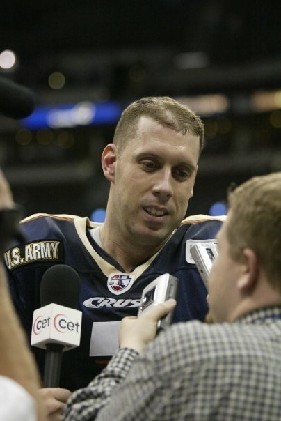 Clay Rush Colorado Crush Pepsi Center